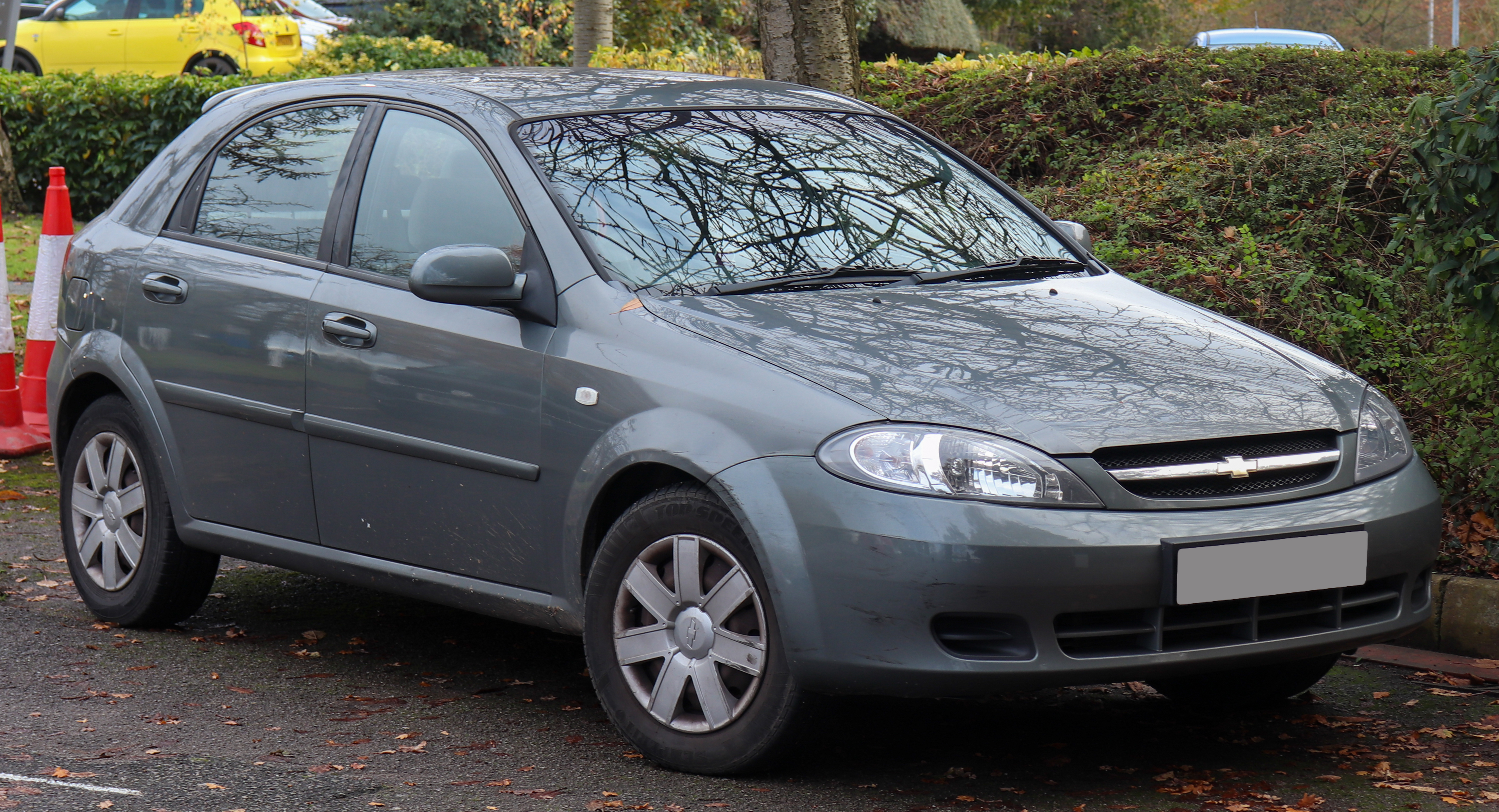 2009 Chevrolet Lacetti SE AC 1.4 Taken in the NEC Car Park, Birmingham